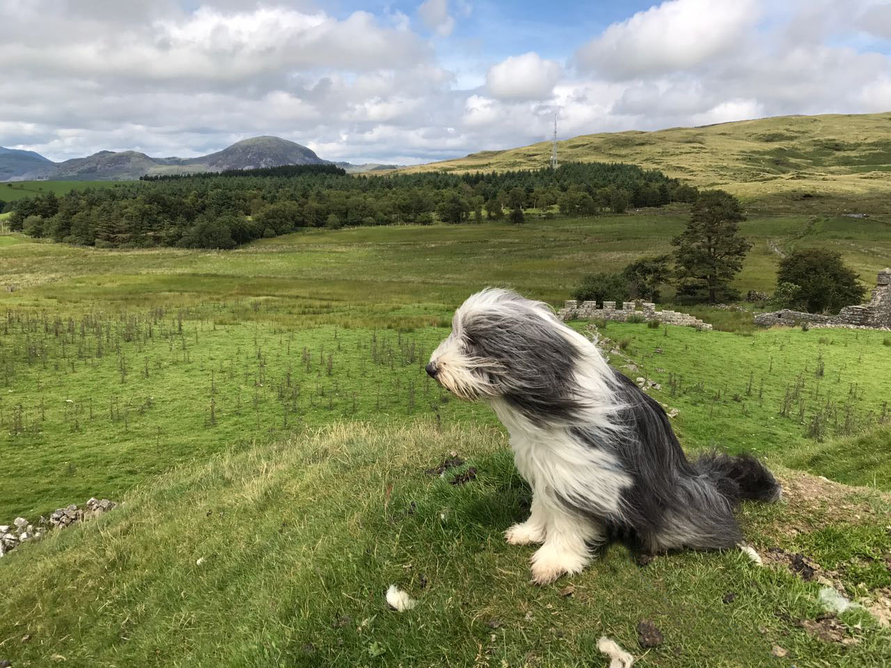 Bearded Collie sitting on a hill on a windy day in Wales